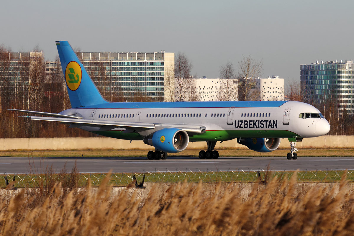 An Uzbekistan Airways Boeing 757-231 at Pulkovo Airport (LED / ULLI)